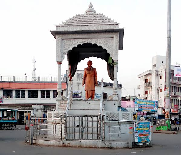 This image from Ramesh Chowk